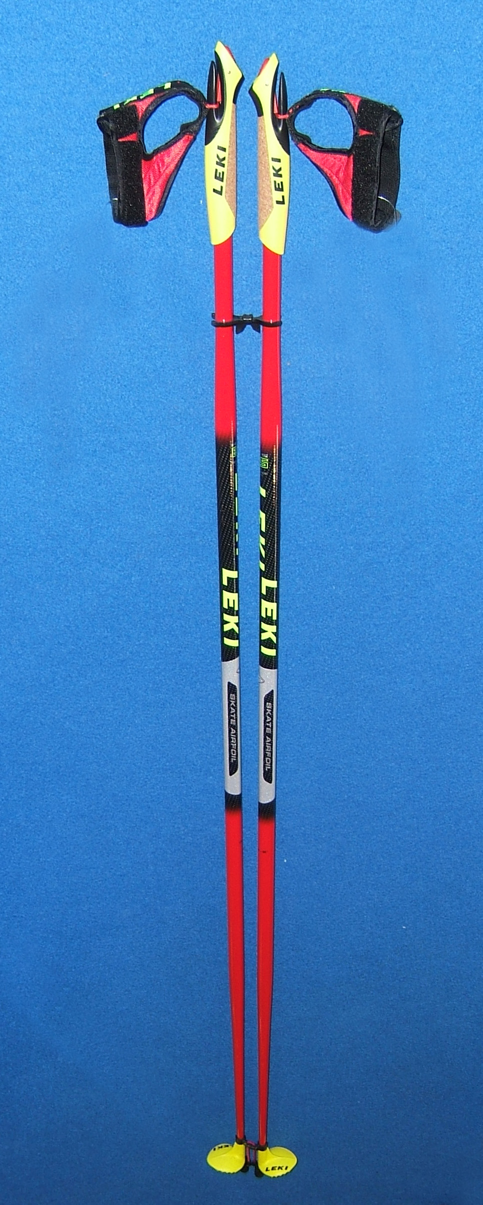 Ski poles for skating (cross country skiing). Poles appear shorter due to perspective.